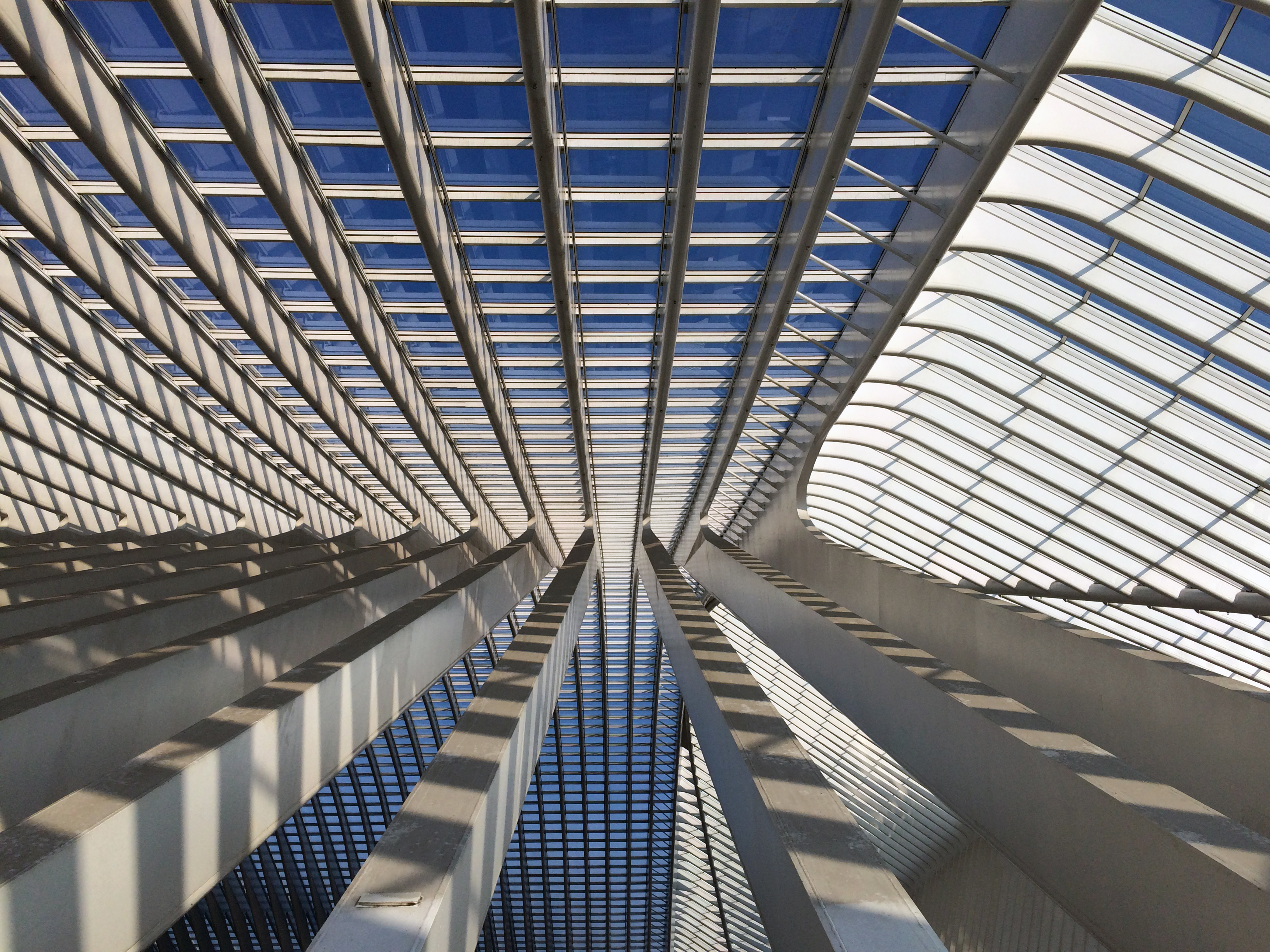 Calatrava's beautiful structure at Guillemins railway station, Liege, Belgium